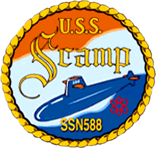 Embelm of the USS Scamp (SSN-588)